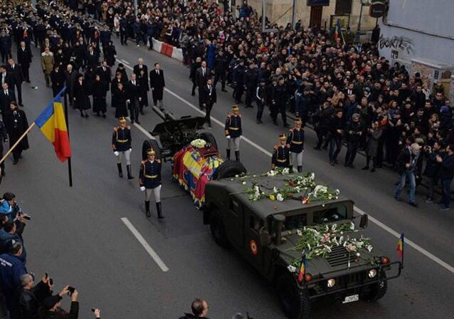 The state funeral Procession through Bucharest of the late king Michael I of Romania